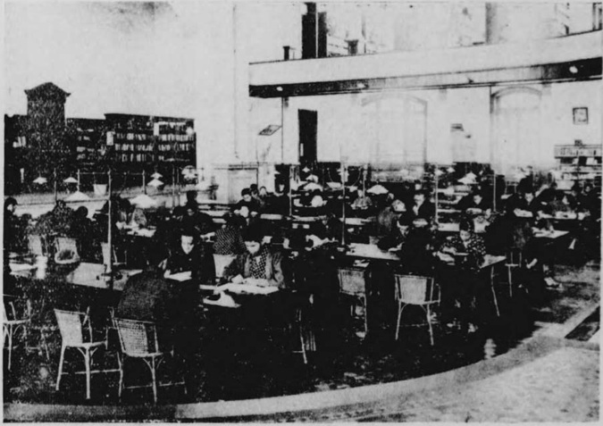 Taiwan Sōtokufu Toshokan (interior)